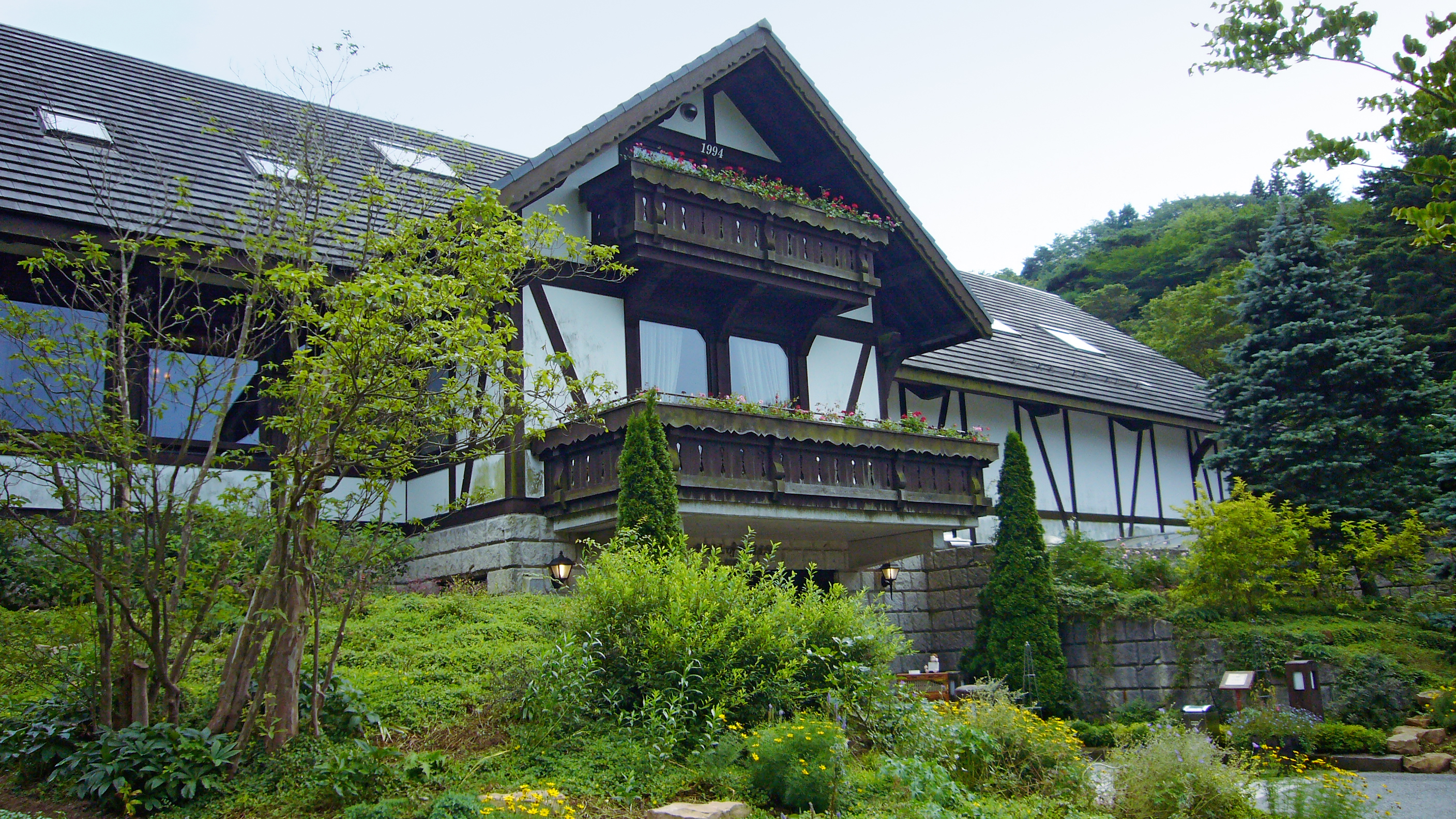 Rokko International Musical Box Museum in Kobe, Hyogo prefecture, Japan